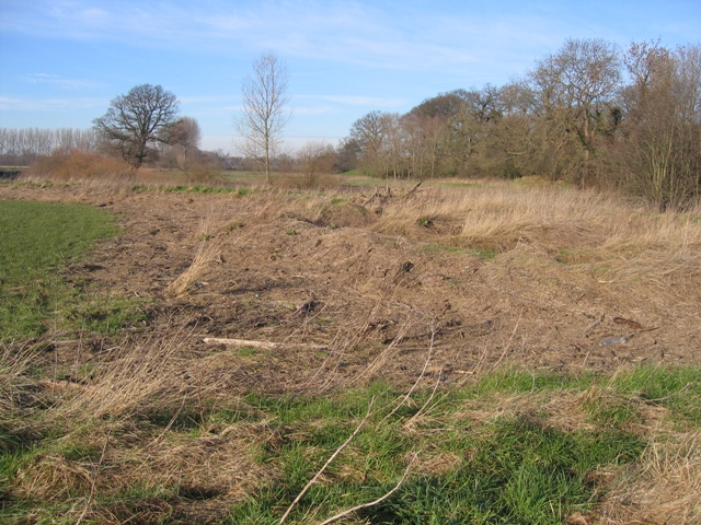 The Banks of the River Dee Looking across the narrow kneck of land between two parts of the River Dee. The detritus in front of the camera was all deposited by the river when it was in flood some weeks before, and when it was several feet higher than now.